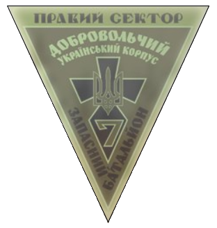 Sleeve patch of the 7th Replacement Battalion for the Ukrainian Volunteer Corps (UVC)